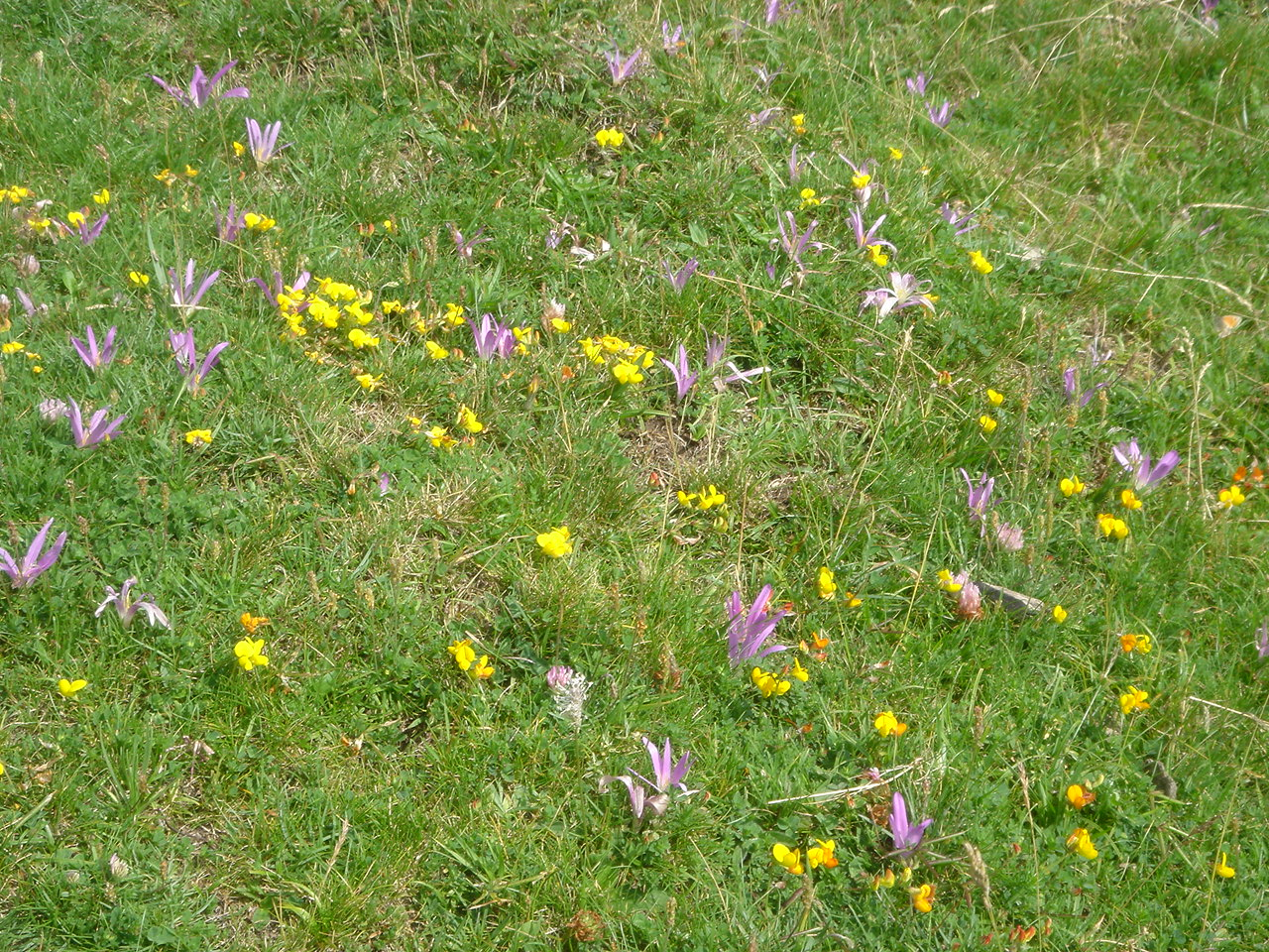 Alpine meadow with Colchicum montanum and Lotus alpinus